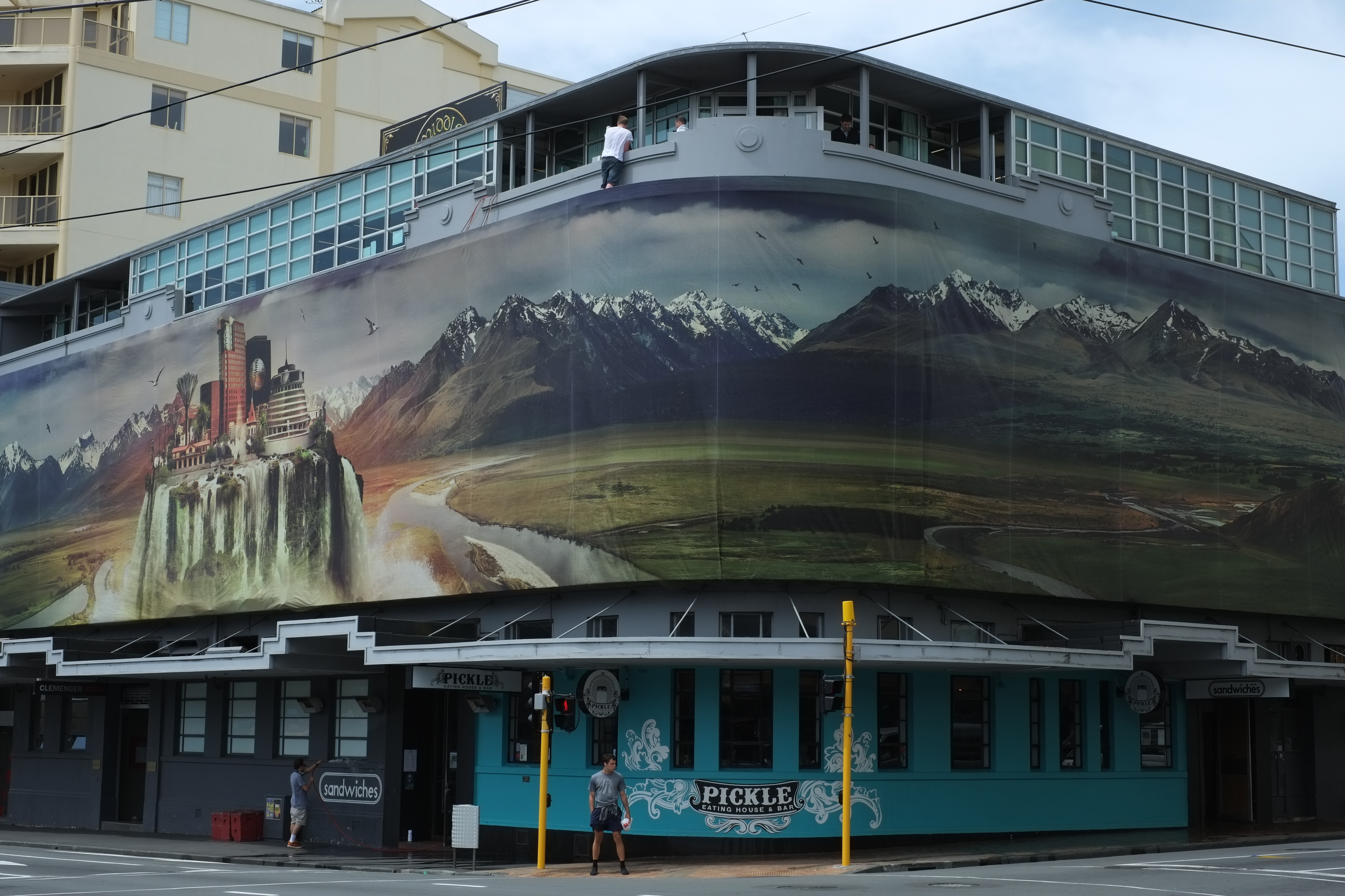 Giant Middle of Middle Earth poster for The Hobbit world premiere in Wellington